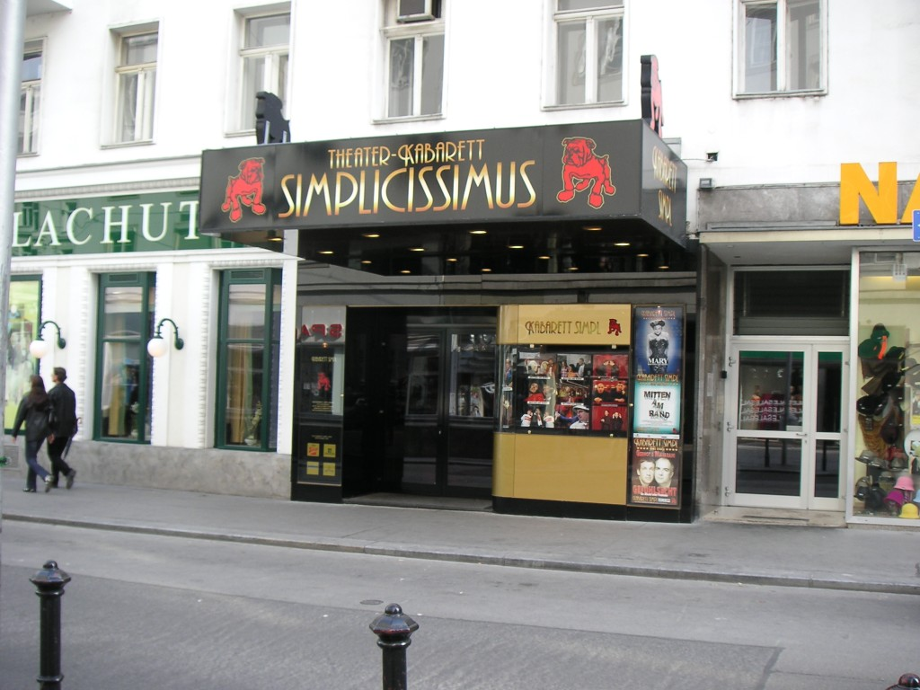 Entrance of the cabaret Simpl in Vienna